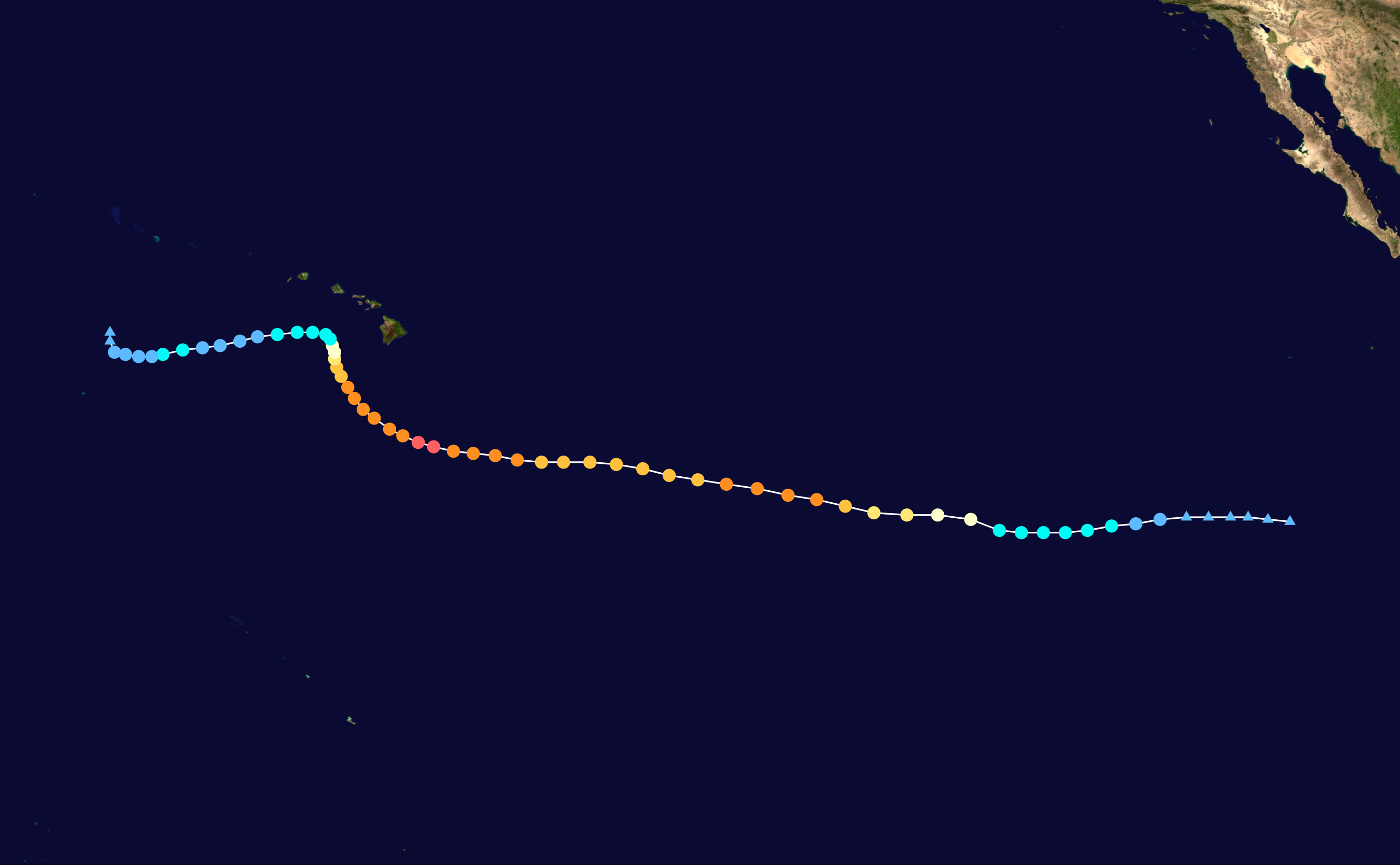 Track map of Hurricane Lane of the 2018 Pacific hurricane season. The points show the location of the storm at 6-hour intervals. The colour represents the storm's maximum sustained wind speeds as classified in the Saffir–Simpson scale (see below), and the shape of the data points represent the nature of the storm, according to the legend below. Saffir–Simpson scale Tropical depression≤38 mph≤62 km/h Category 3111–129 mph178–208 km/h Tropical storm39–73 mph63–118 km/h Category 4130–156 mph209–251 km/h Category 174–95 mph119–153 km/h Category 5≥157 mph≥252 km/h Category 296–110 mph154–177 km/h Unknown Storm type Tropical cyclone Subtropical cyclone Extratropical cyclone / Remnant low / Tropical disturbance / Monsoon depression